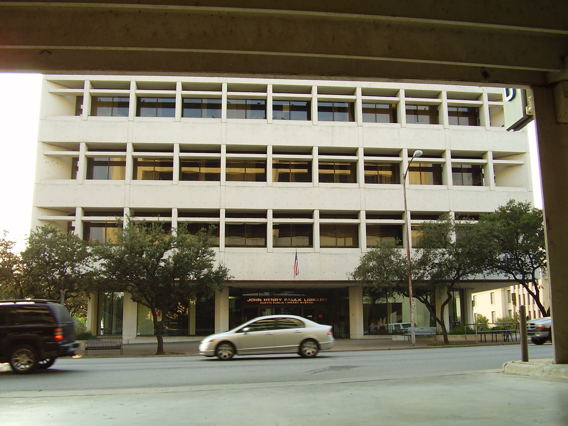 John Henry Faulk Library in Austin, Texas